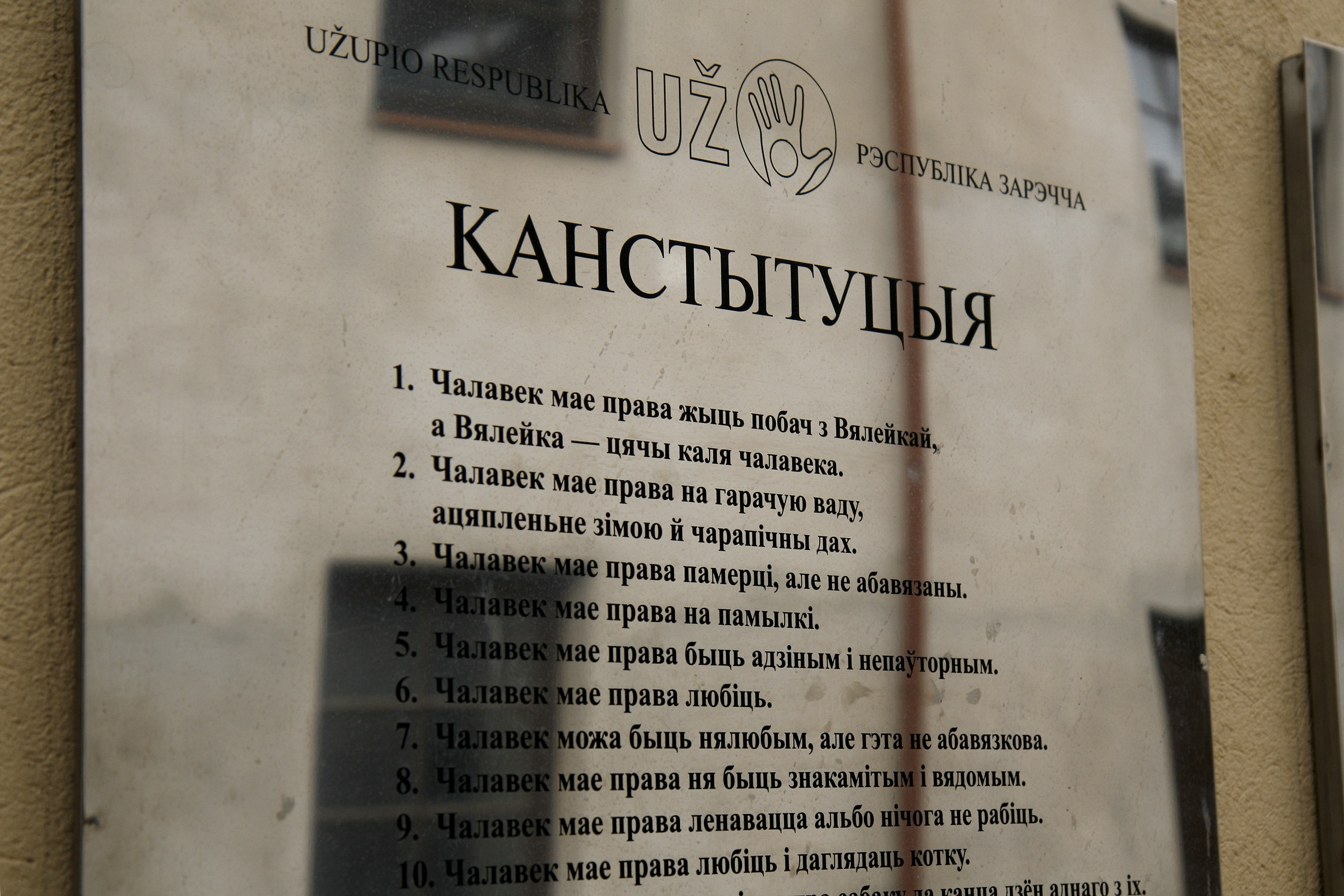 Constitution of Republic of Zarecca in Belarusian. Užupis, Paupio g., Vilnius, 2008